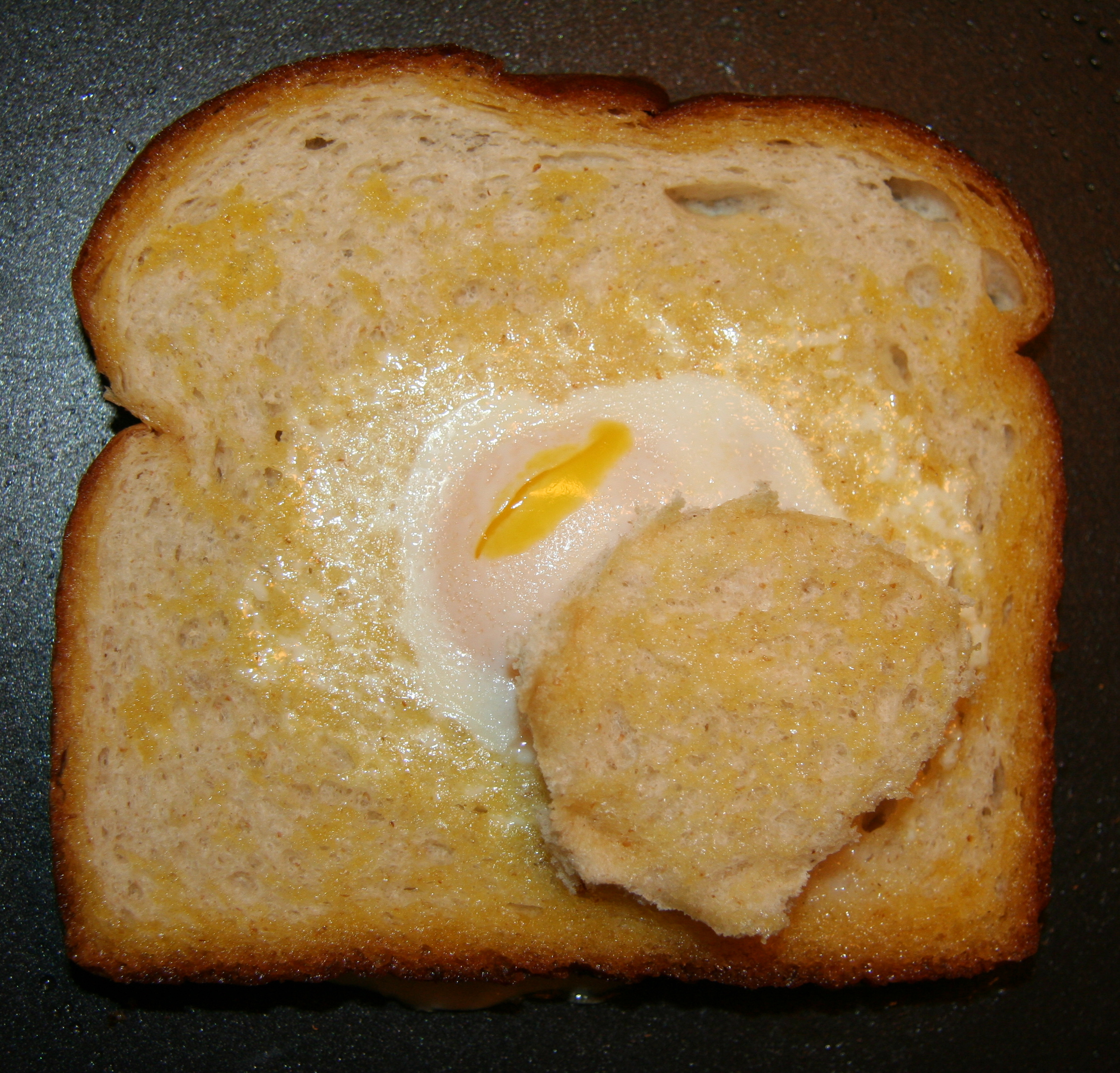 Egg in the basket: an egg cooking in the center of a slice of bread